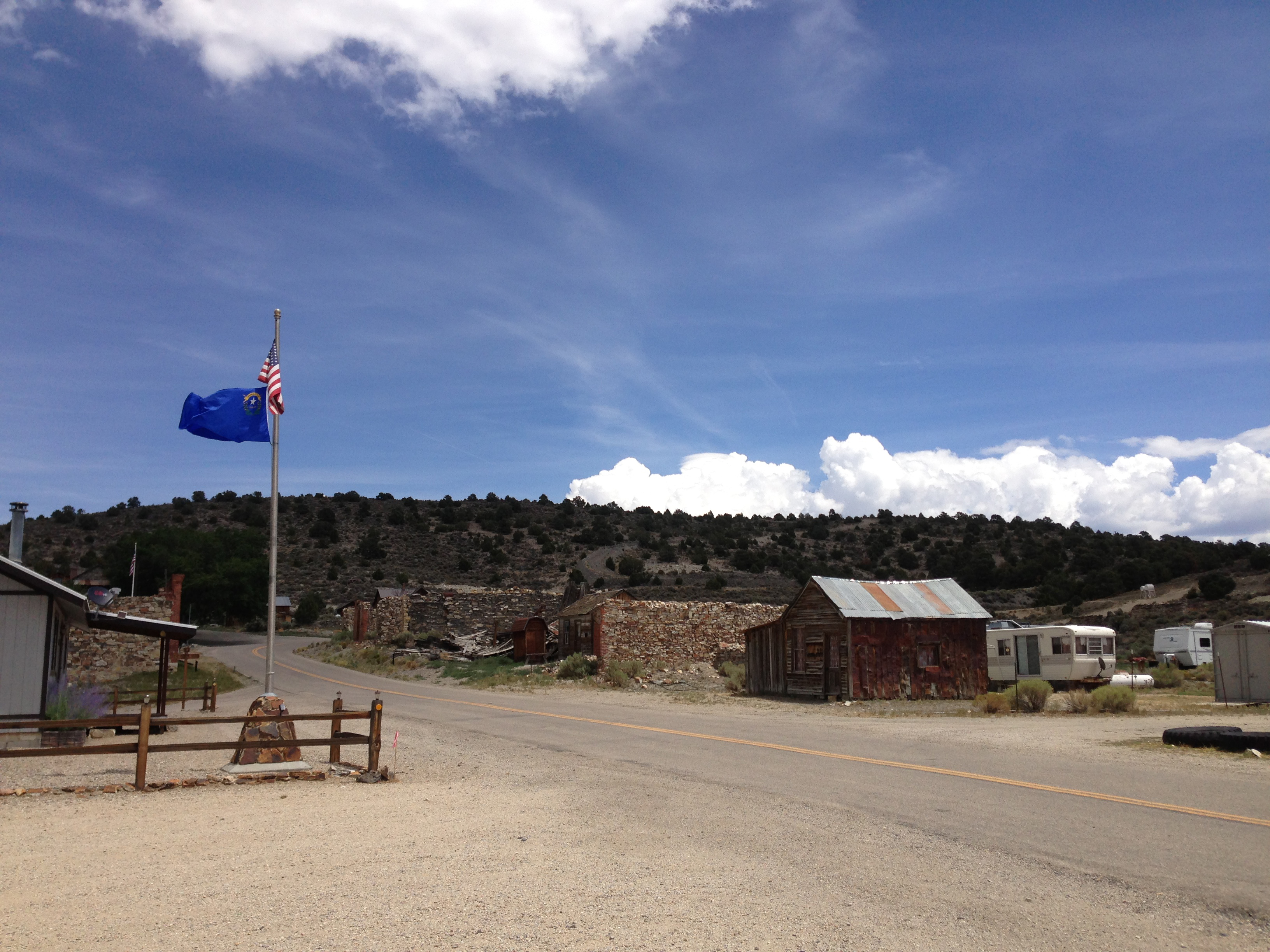 View northeast along Main Street in Belmont, Nevada